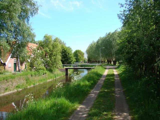 Hessenweg near Bredevoort, Netherlands